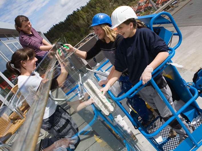 YEP workers on Brunstad Conference Center